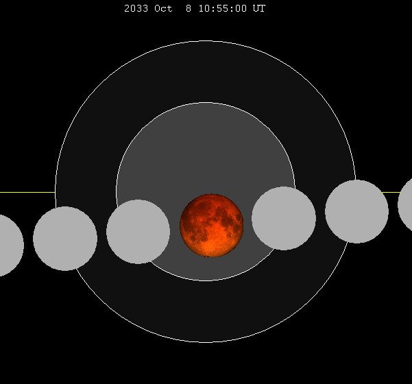 October 2033 lunar eclipse chart of moon's total lunar eclipse path through the earth's shadow. thumb